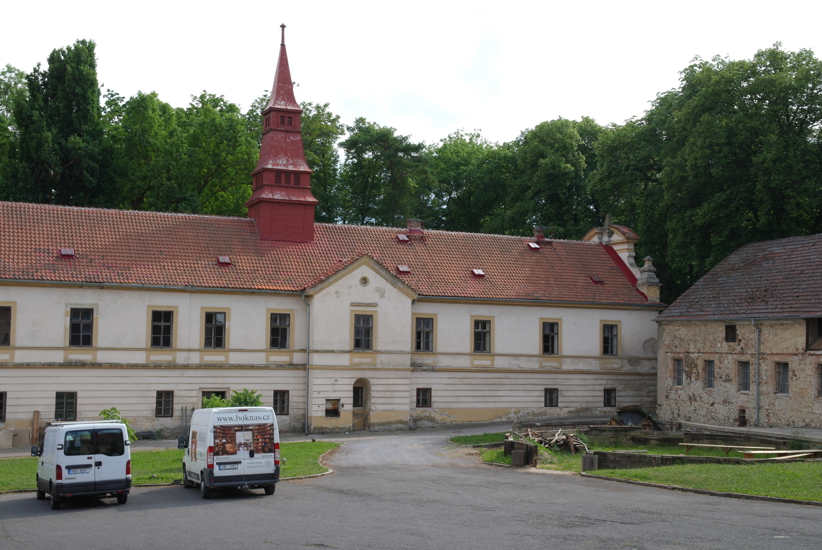 Chateau Úholičky, Úholičky. The courtyard